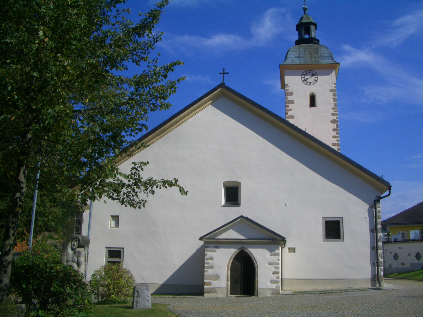 Saint Quirin Church in Pierbach, Upper Austria